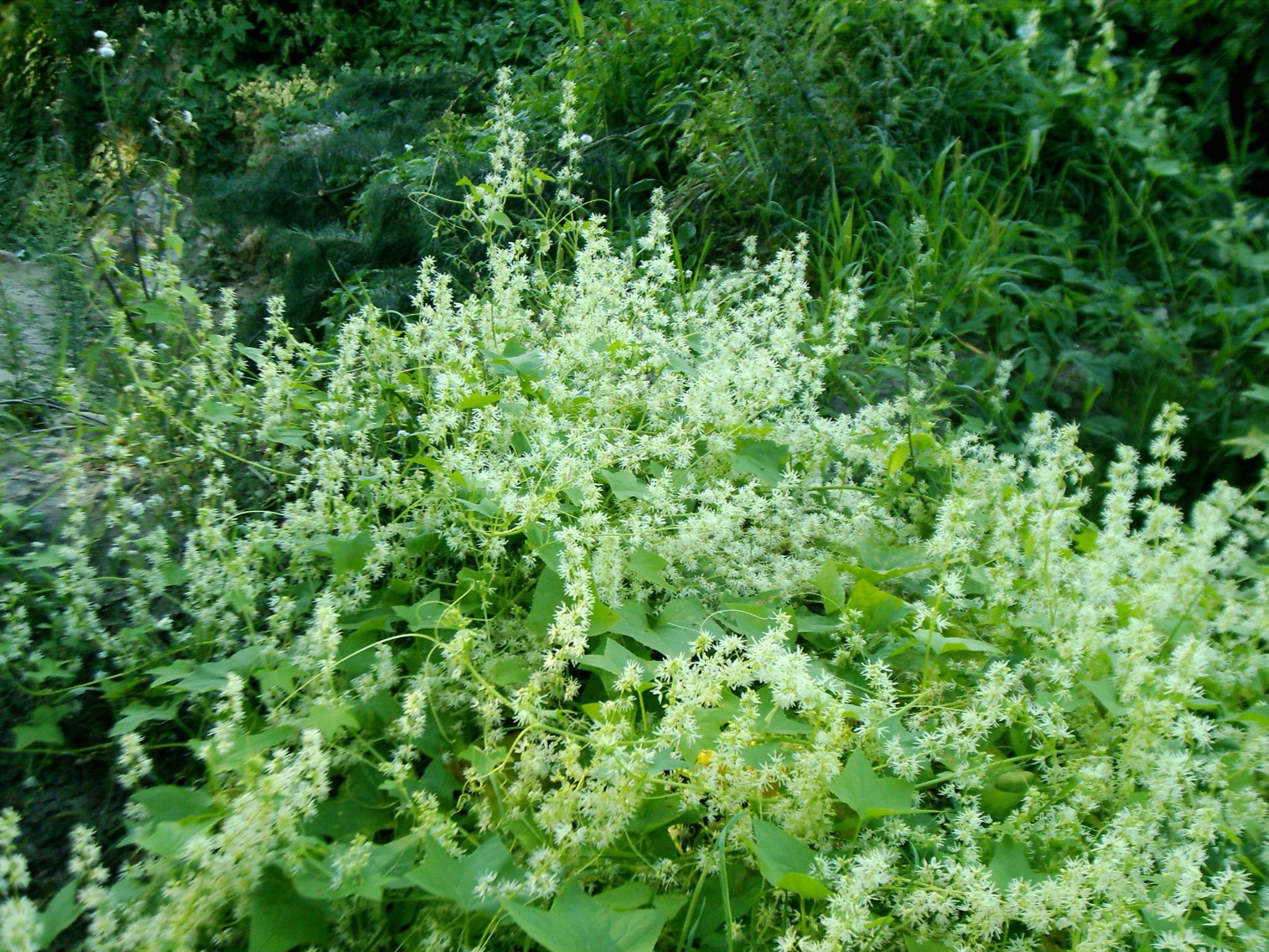 Echinocystis_lobata